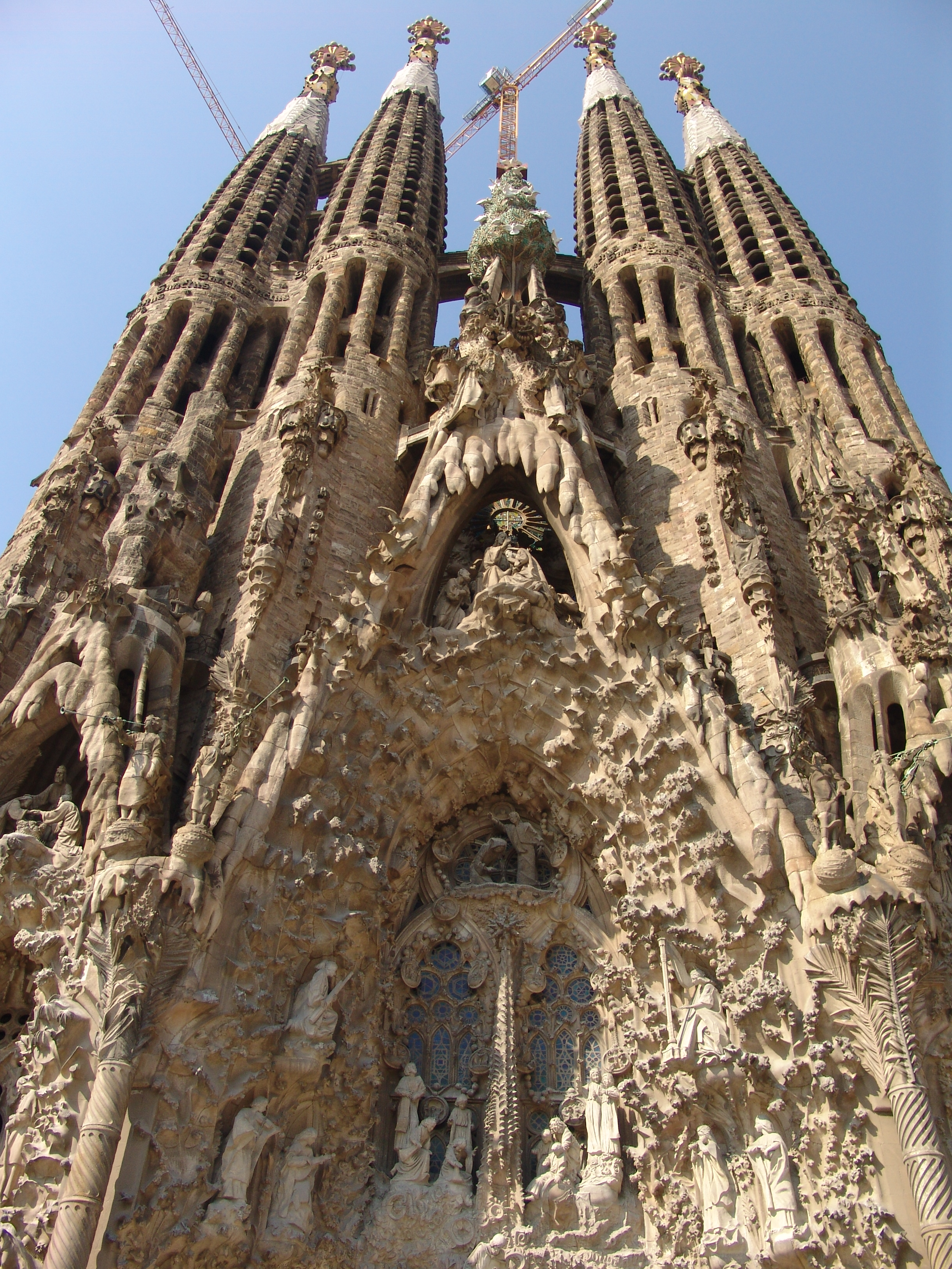 Christmas facade of the Sagrada Familia in Barcelona